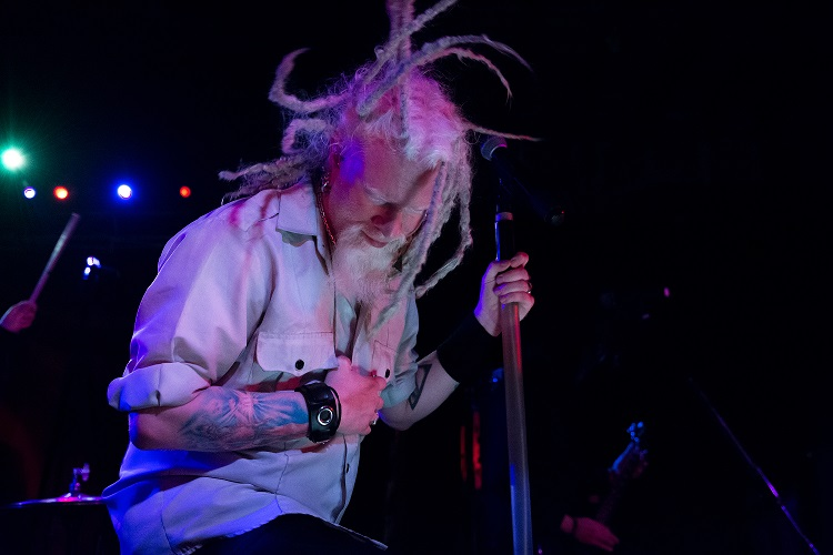 Gemini Syndrome lead singer